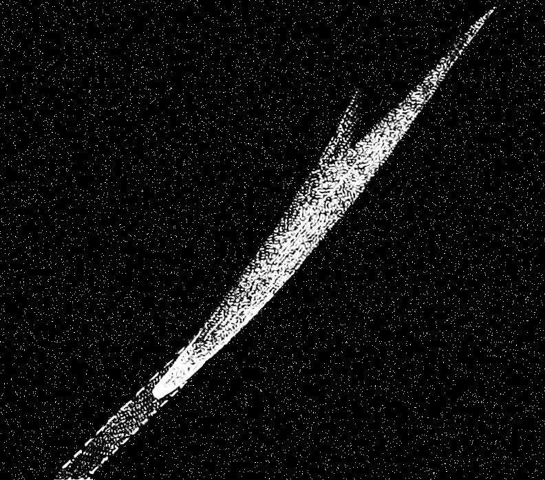 The Great Comet of 1882 on October 15